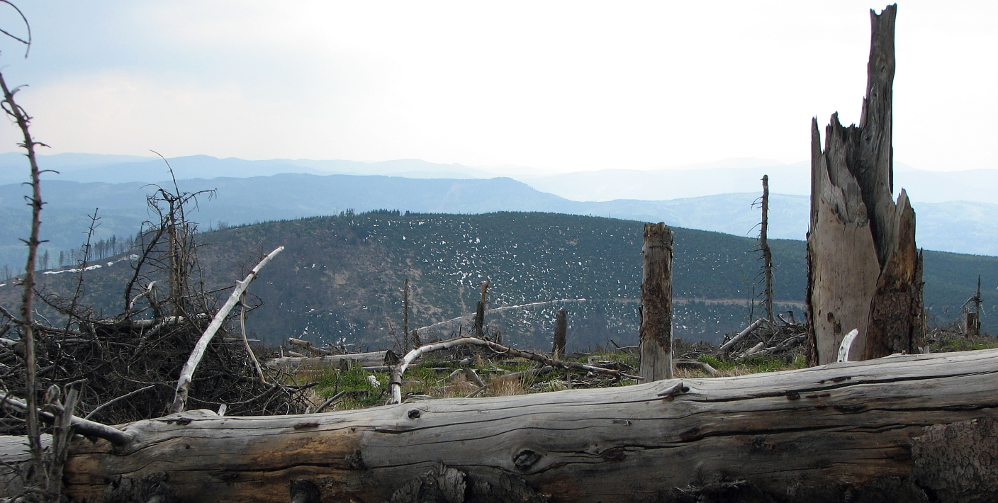 Malinów